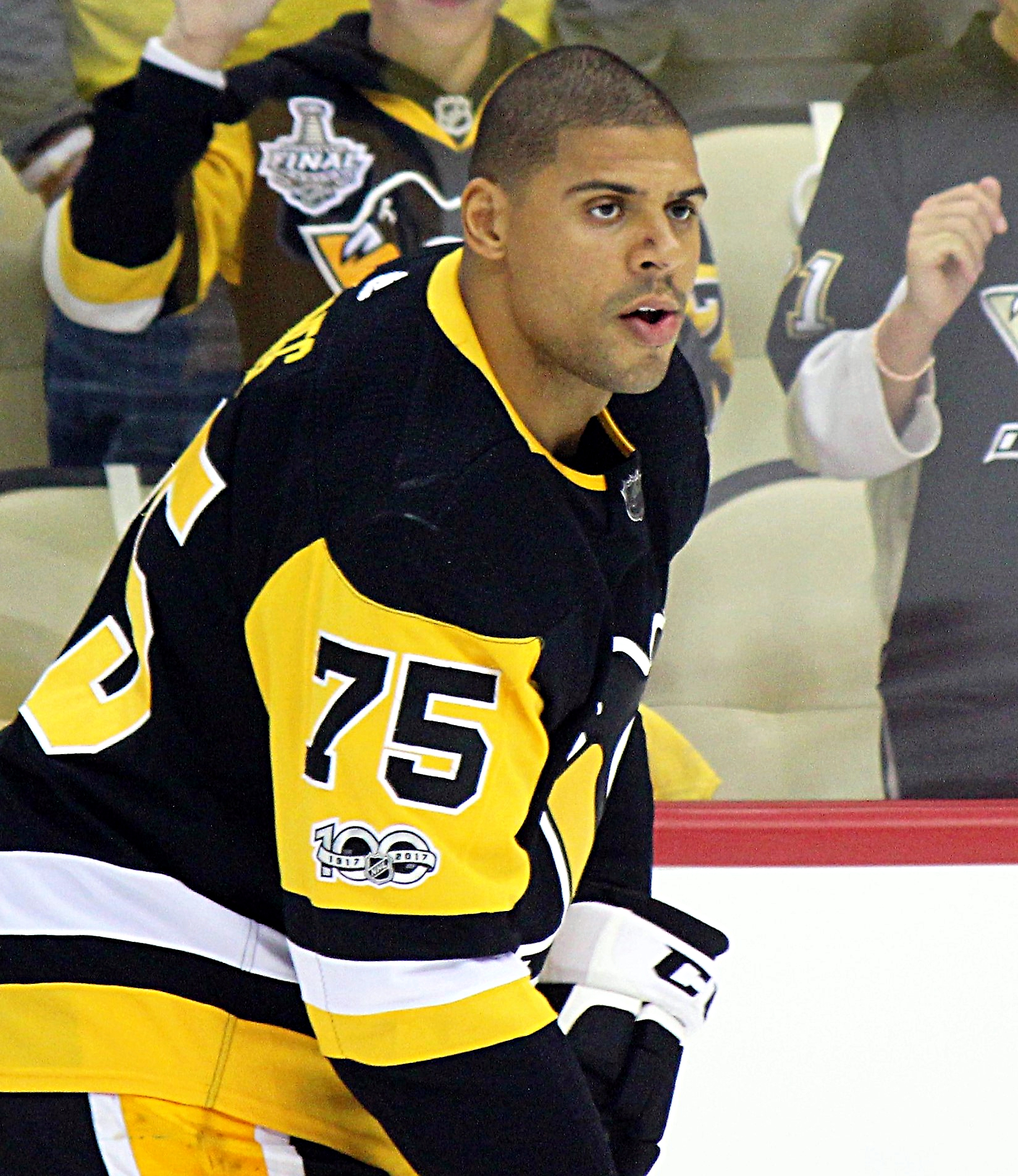 Pittsburgh Penguins forward Ryan Reaves during a game against the St. Louis Blues, October 4, 2017, at PPG Paints Arena in Pittsburgh, PA.